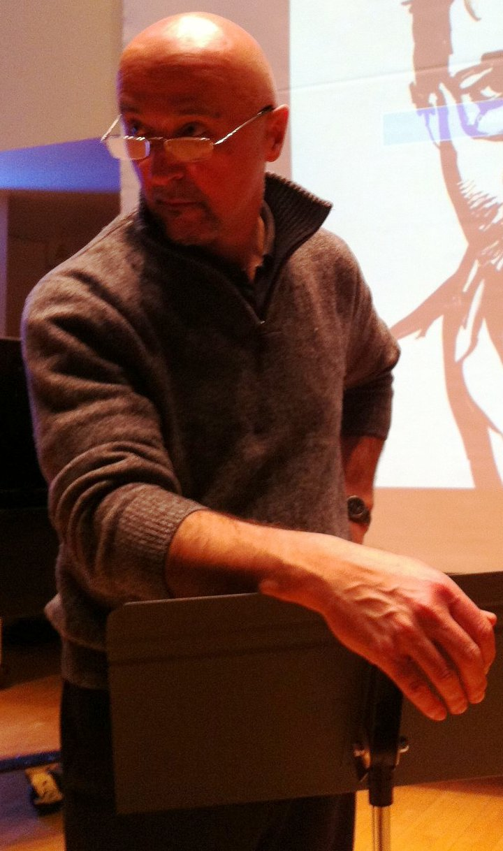 Accordionist Joseph Petric during rehersal.